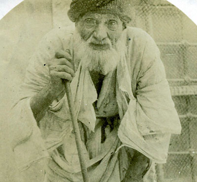 107 year old Chaldean man from Mosul, Iraq.